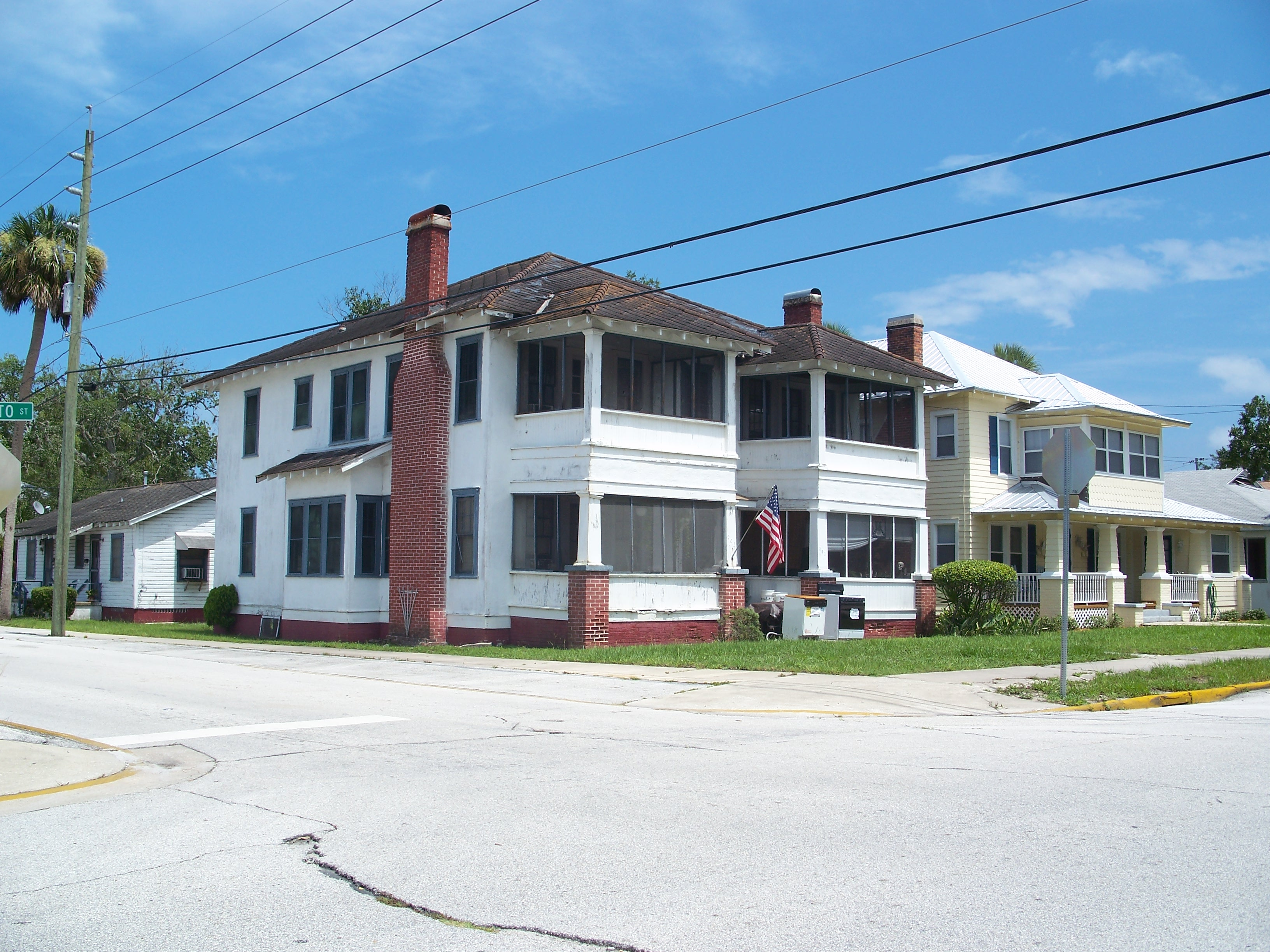 House in the New Smyrna Beach Historic District, in New Smyrna Beach, Florida